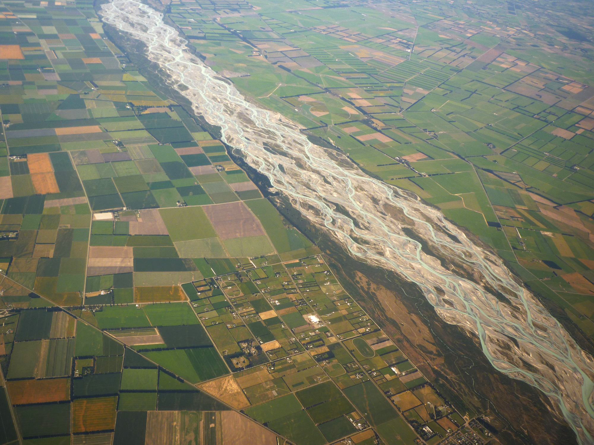 Aerial view of the Rakaia River, a braided river crossing the Canterbury Plains, South Island, New Zealand.